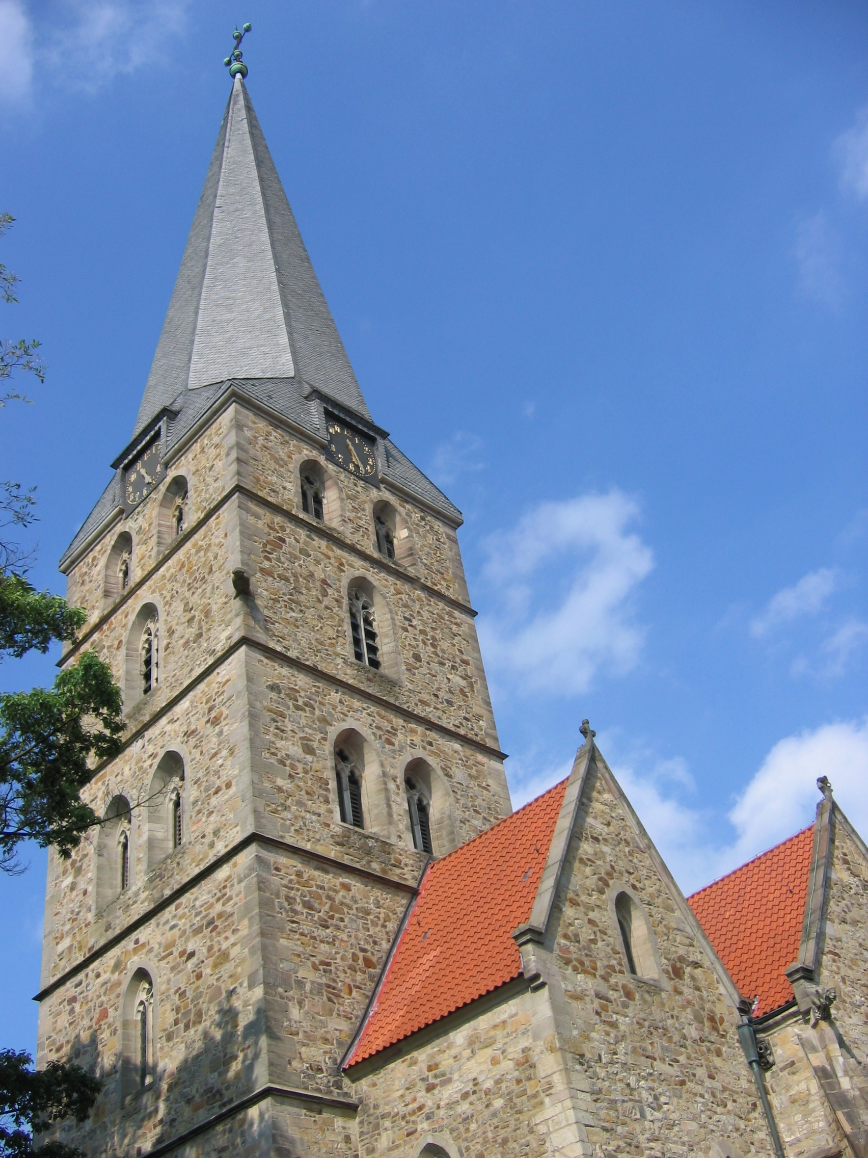 Church tower of St. Johannis in town of Herford, District of Herford, North Rhine-Westphalia, Germany.